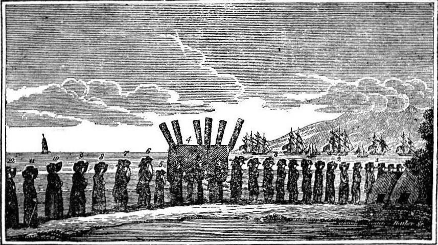 Funeral Procession of Keōpūolani. Explanation of the Engraving representing the Funeral Procession. 1. Foreigners.–2. Missionaries.–3. Favorite attendants of Keopuolani.–4. Corpse; pall-bearers the four queens of Rihoriho and two principal women.–5. The Prince and Princess.–6. The King and Hoapiri.–7. Karaimoku and his brother Boki.–8. King Taumuarii and Kaahumanu.–9. Kuakini and Kalakua.–10. Piia and Wahinepio.–11. Kaikioeva and Keaveamahi.–12. Naihi and Kapiolani..